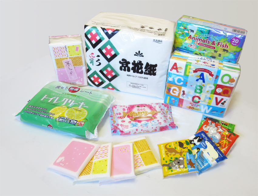 Product photo. Pocket Tissue, Toilet Cleaner, kyohanashi